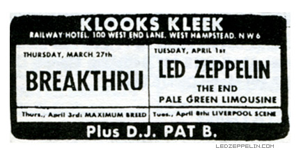 advertise